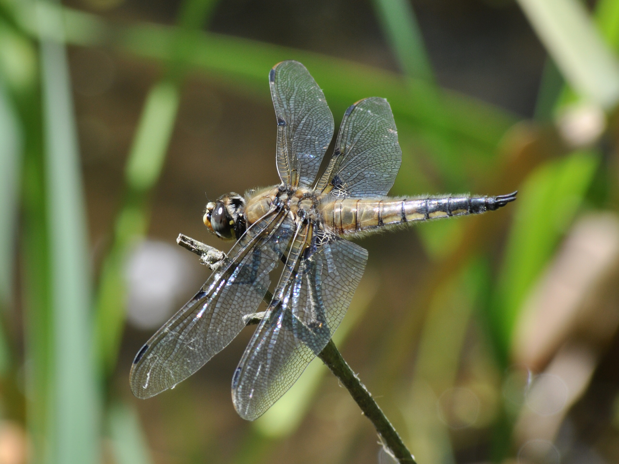 A Four-spotted Chaser (Libellula quadrimaculata) on a branch by a pond.